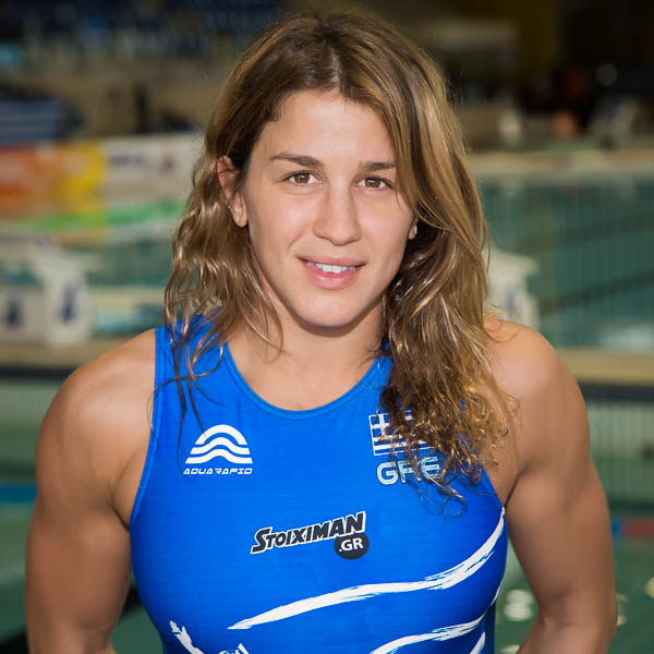 Alexandra Asimaki in Barcelona on April 28th 2015